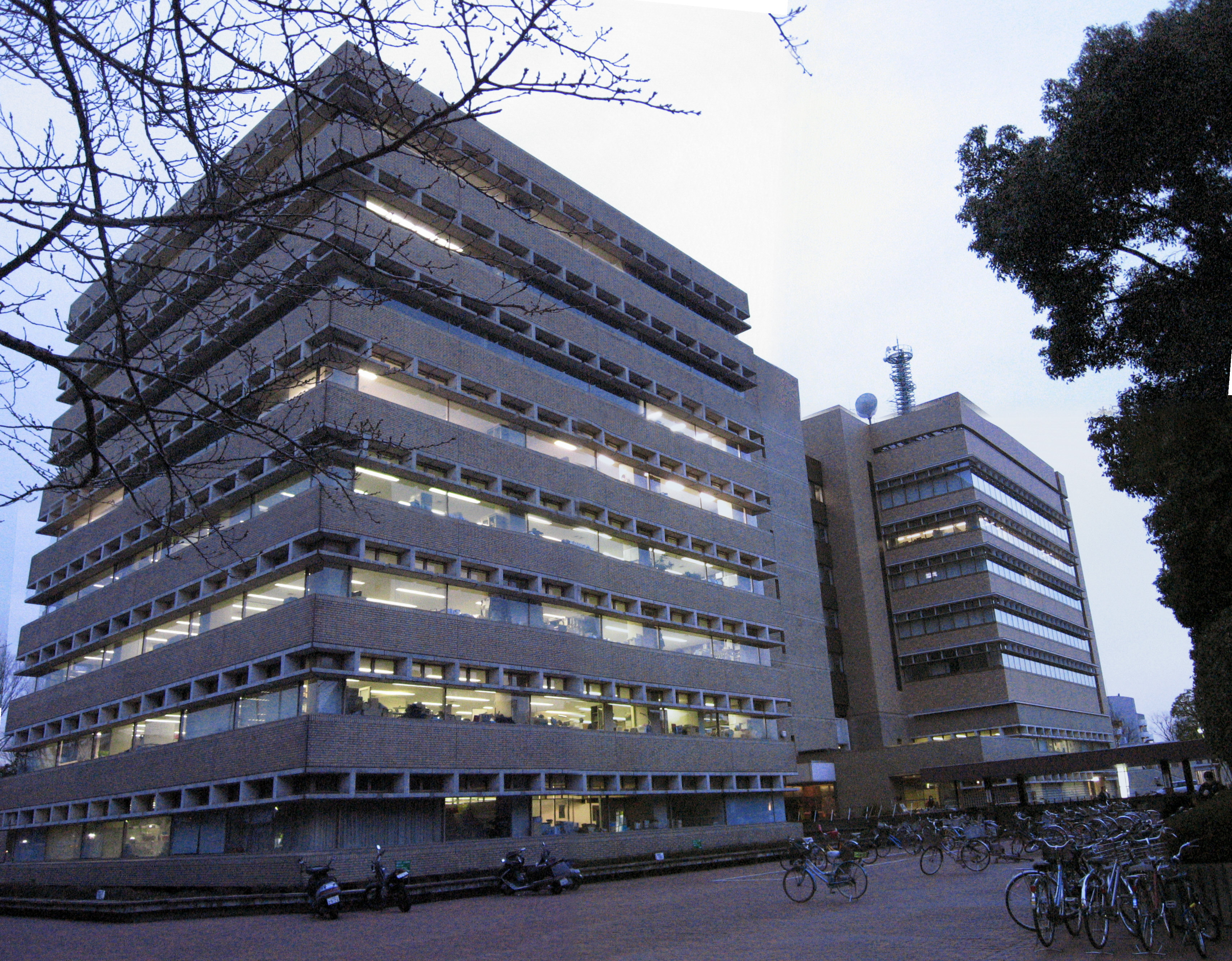 Musashino city government office.